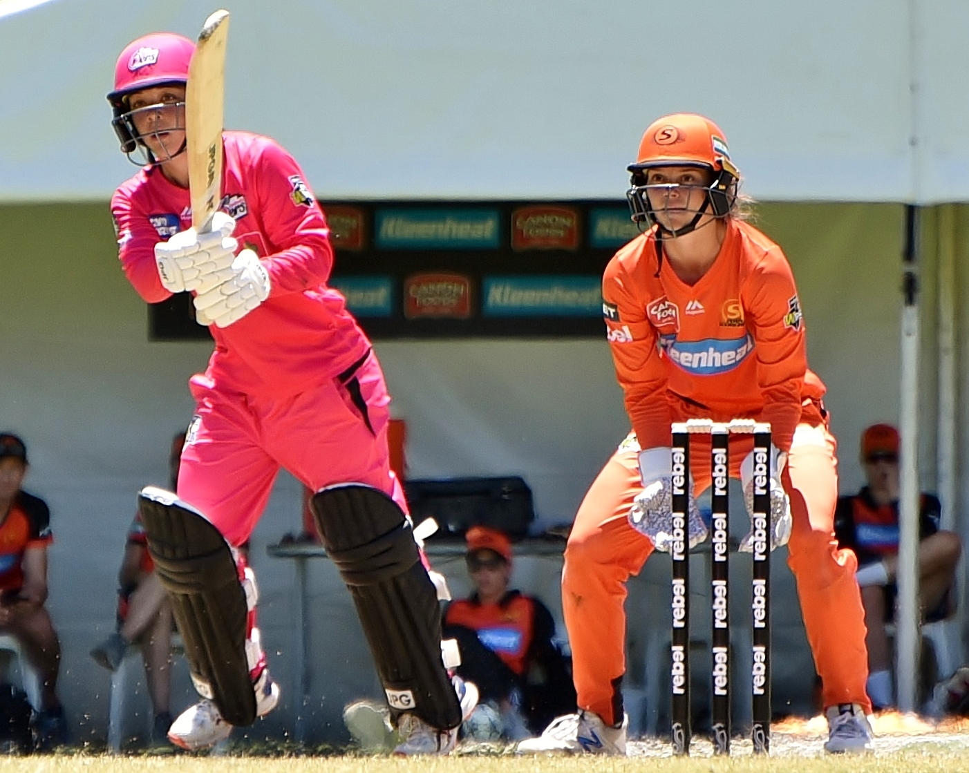 Sydney Sixers bowler Lauren Smith batting against the Perth Scorchers, in a WBBL match at Lilac Hill Park in Perth. The wicket-keeper is Amy Jones